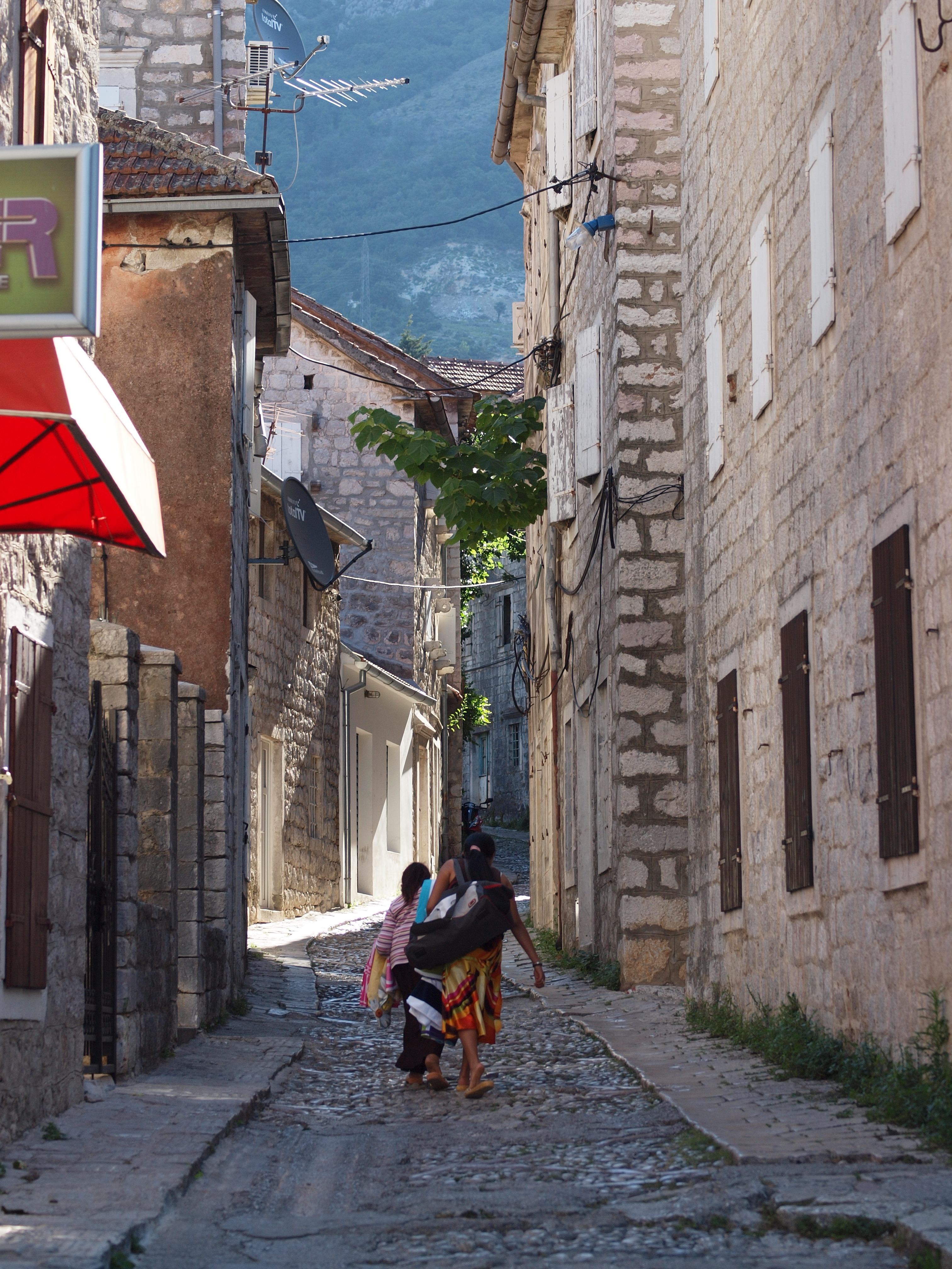 Gabela street, Risan Montenegro